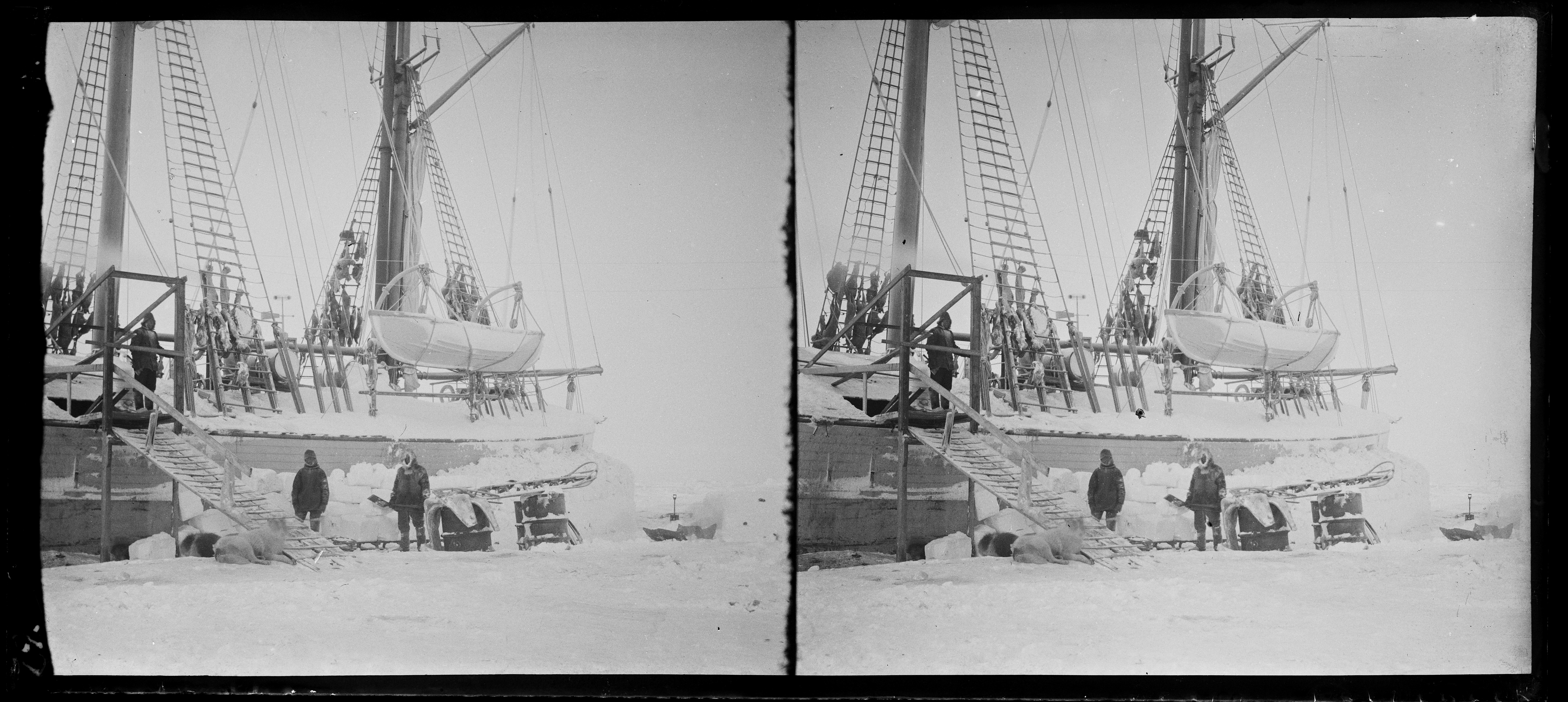 Beskrivelse / Description: Over dekket ligger et såkalt vintertak som holdt dekket fritt for snø. Dato / Date: 1918 Sted / Place: Russland Fotograf / Photographer: ukjent / unknown Digital kopi av original / Digital copy of original: negativ stereoglassplate Eier / Owner Institution: Nasjonalbiblioteket / National Library of Norway Lenke / Link: Bildesignatur / Image Number: bldsa_NPRA1807